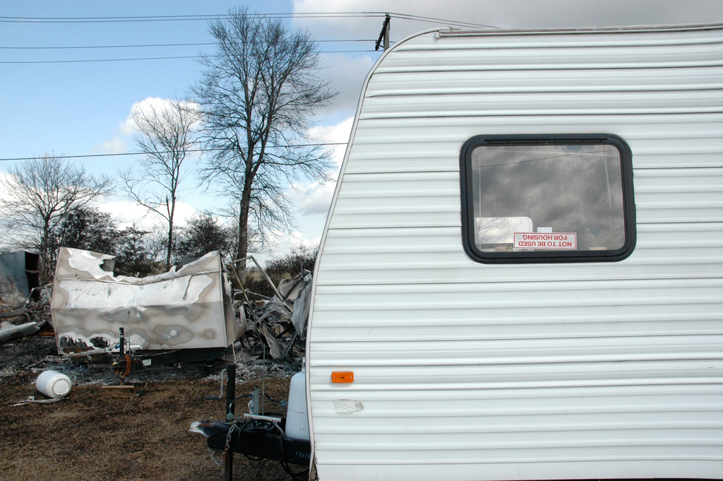 FEMA Trailer with sticker (upside down) in window indicating 'Not to be used for housing'. The image was created for a video about the potentially hazardous conditions, resale and use of FEMA trailers, entitled Where Have All the Trailers Gone?.